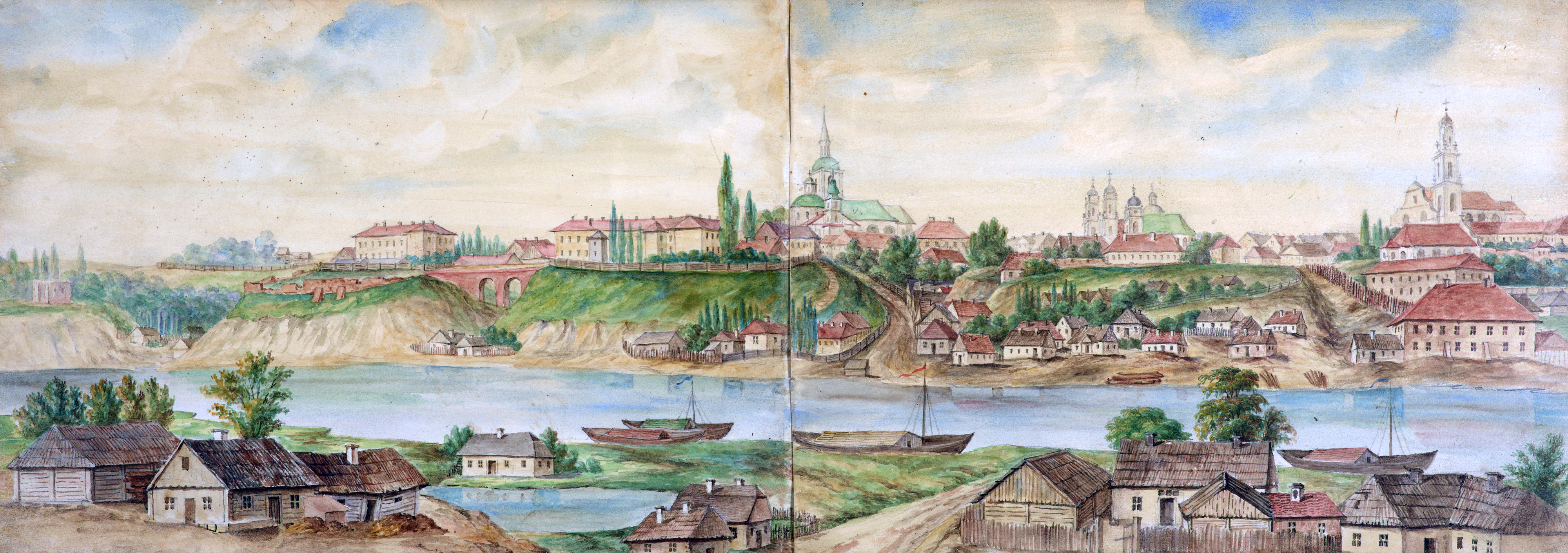 Grodno